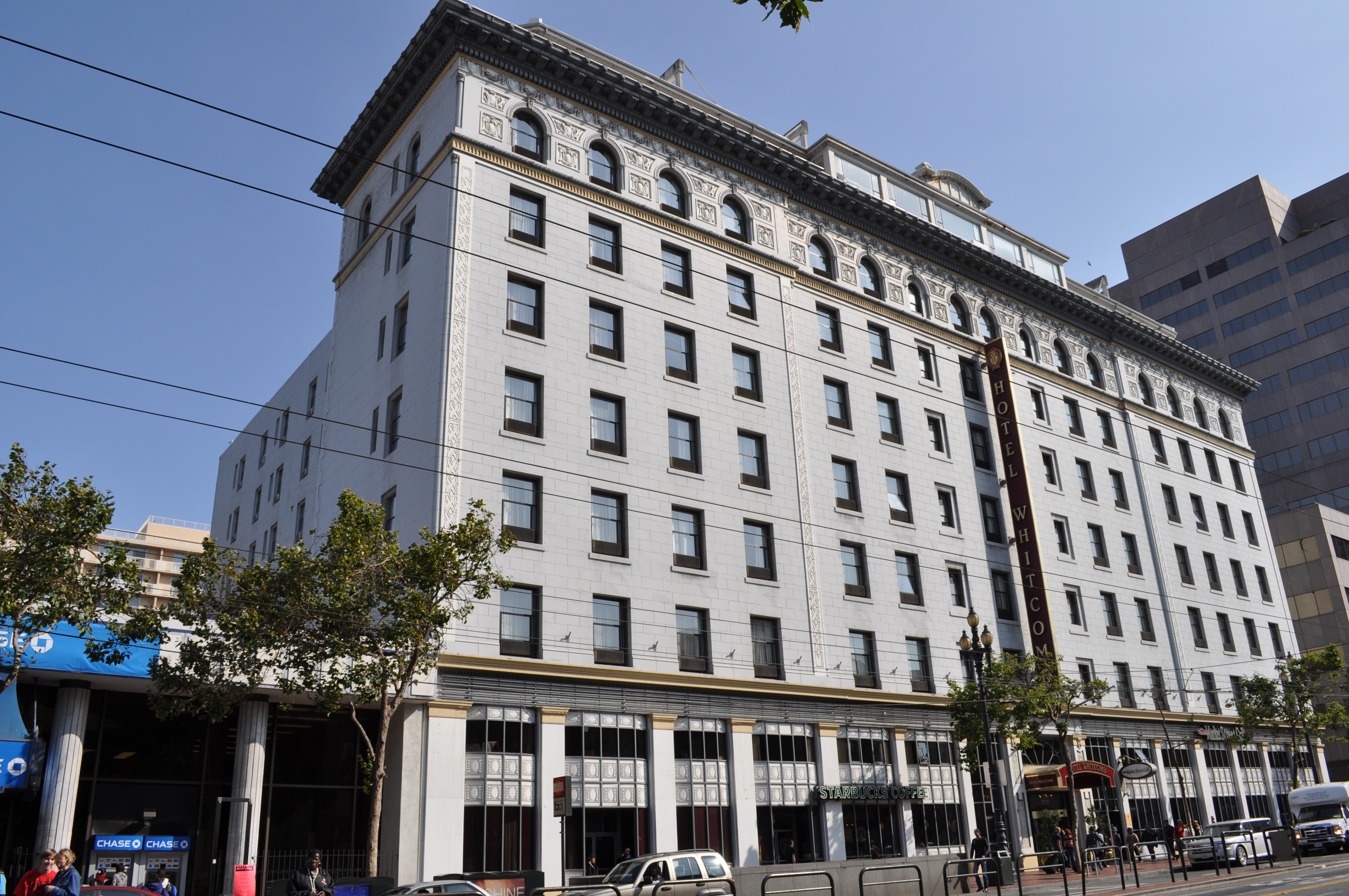 Hotel Whitcomb, 1231 Market Street, San Francisco, California.